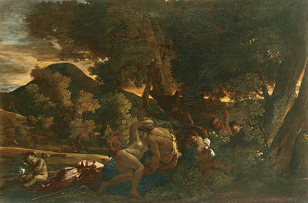 Venus and Adonis, Collection Musée Fabre, Montpellier (France)